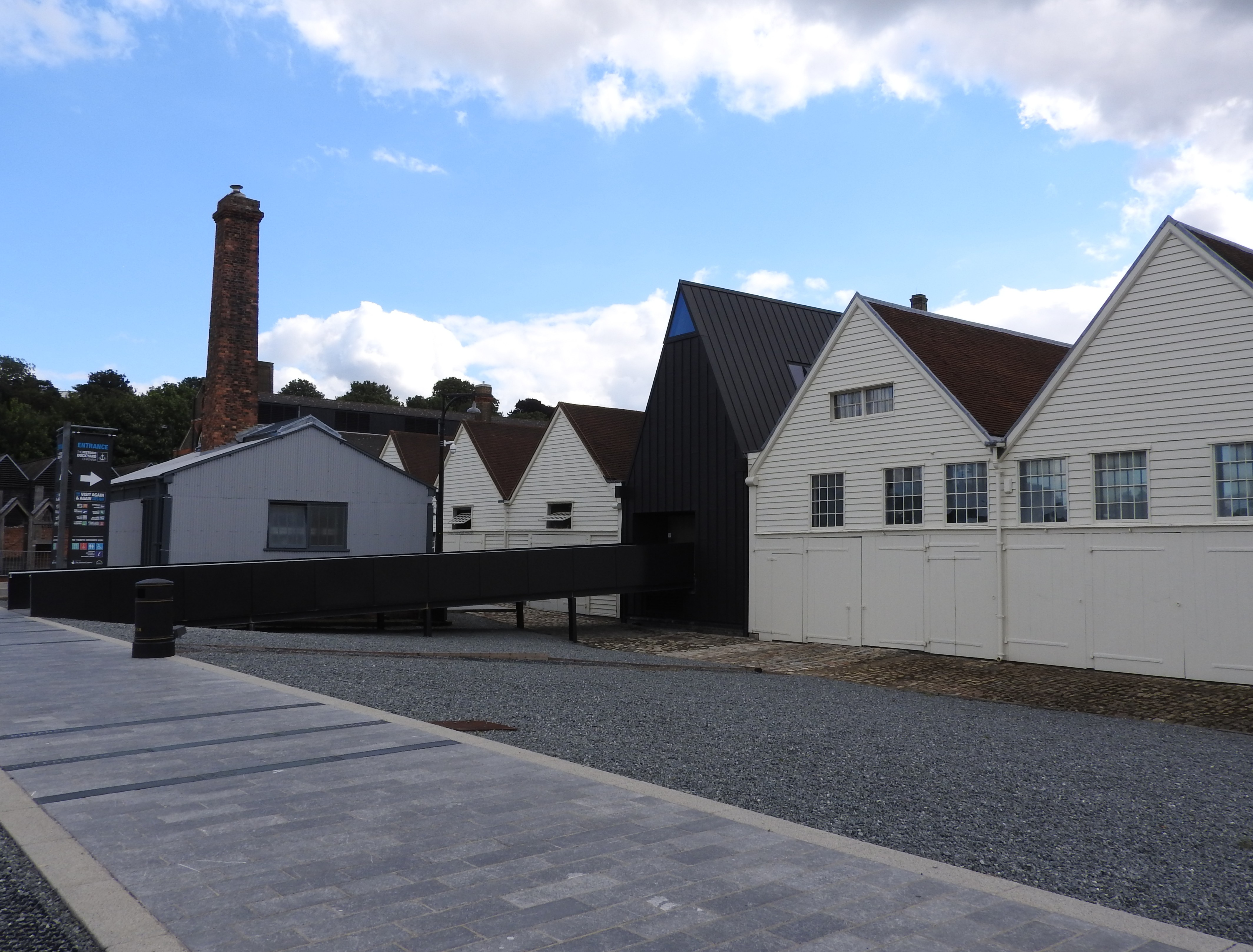 Command of the Oceans Exhibition Space at Chatham Dockyard. The building was nominated for the 2017 Stirling Prize